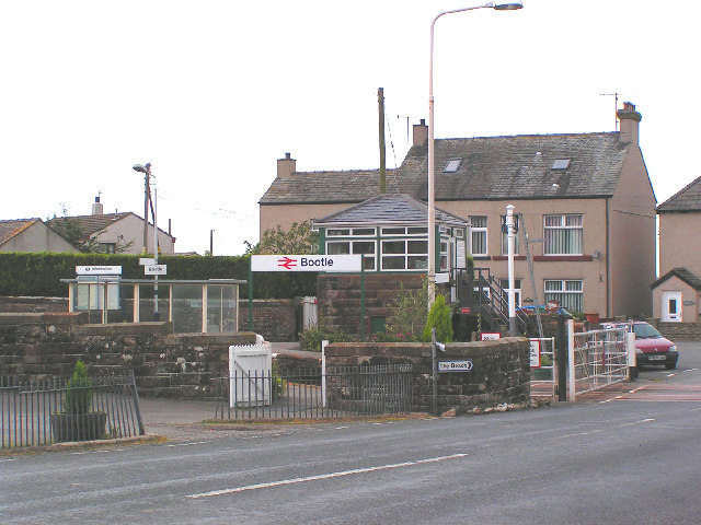 Bootle signal box. The trains were delayed somewhat one morning when a brother-in-law slept in and the gates were still shut. He no longer works with the railway! This is the coastal line between Carlisle and Kendal!